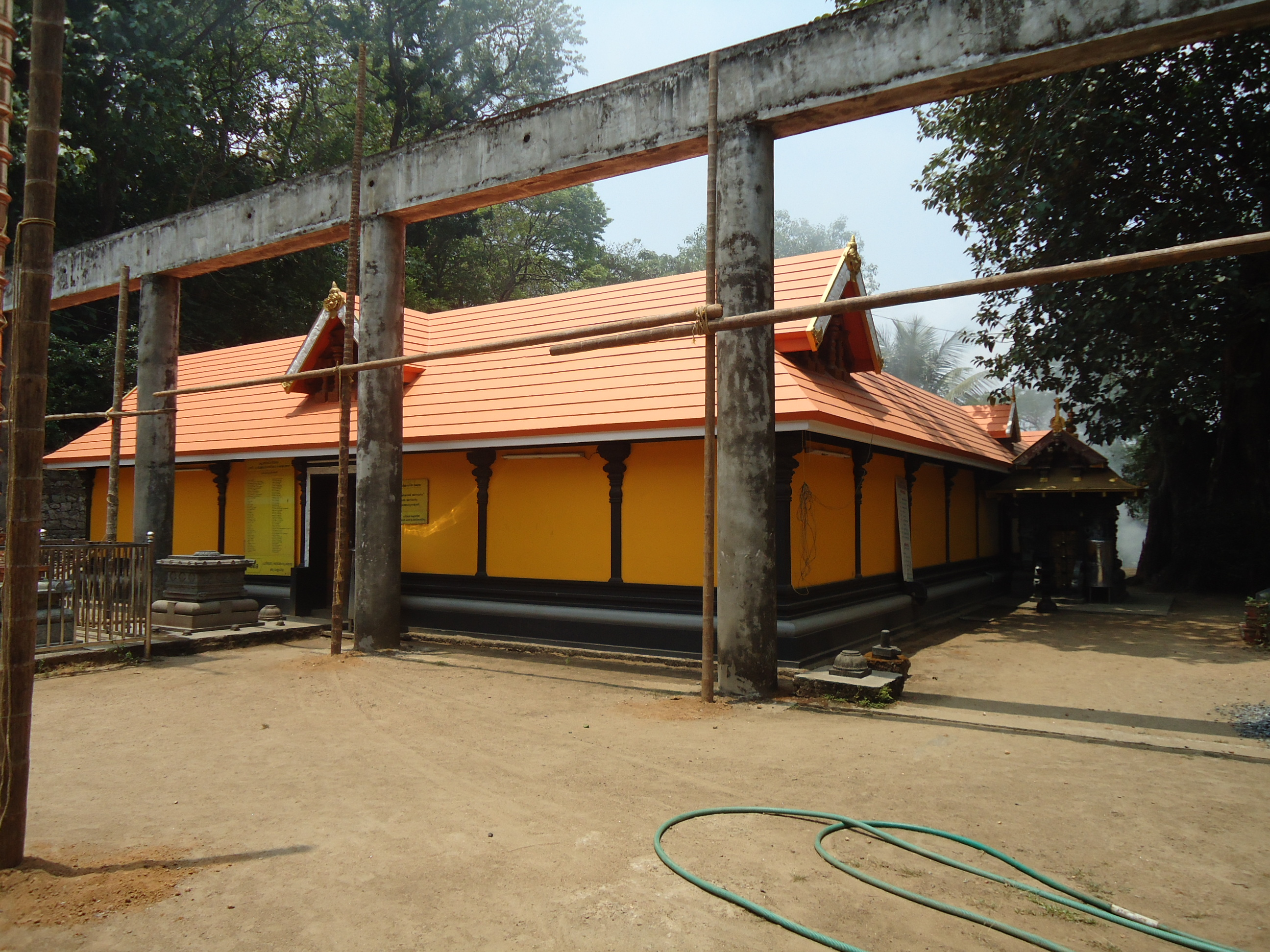 Kuthiranmala Sree dharmasastha TEmple side view